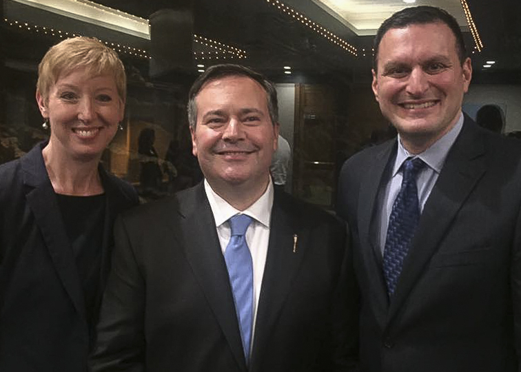 Watsons celebrating with Jason Kenney after UCP leadership win